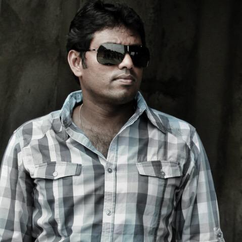 R Rathnavelu ISC